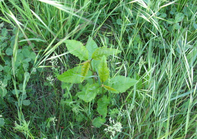 Prunus avium seedling, in Catalonia, Spain